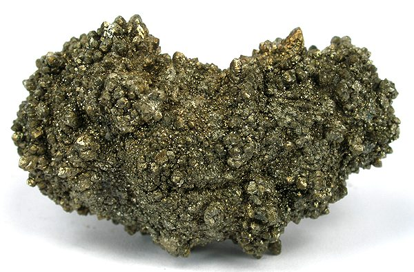 Pyrite Locality: Wallace County, Kansas, USA (Locality at ) Size: 6.1 x 3.4 x 3.3 cm. An unusual growth of pyrite, which some say forms nucleated around organic remains in the fossil-bearing rocks. This is a complete, cucumber-like tube shape, terminated at both ends and complete-all-around. Certainly, pyrite is unusual for Kansas. Ex. Harold Urish Collection.